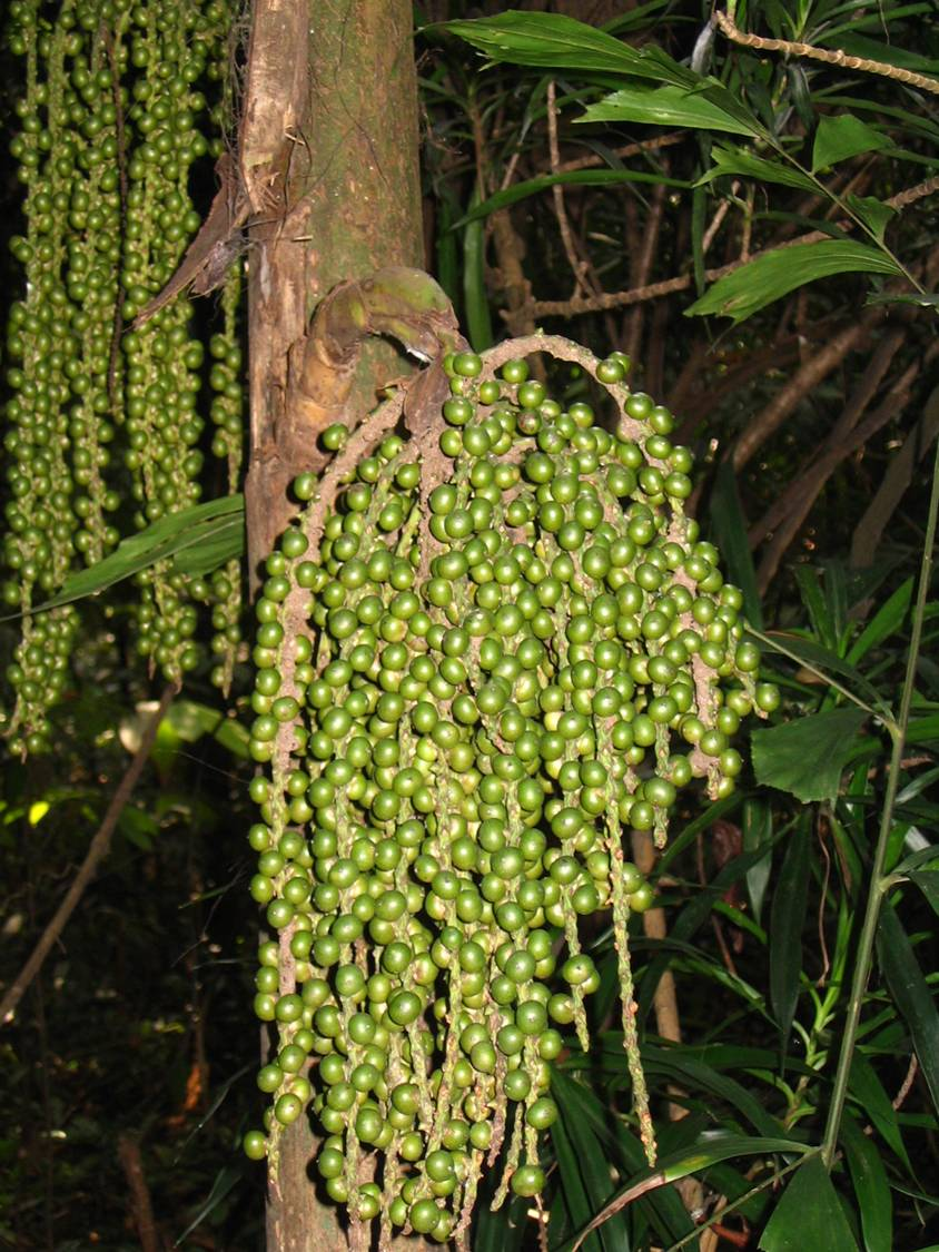 Caryota mitis : infrutescence